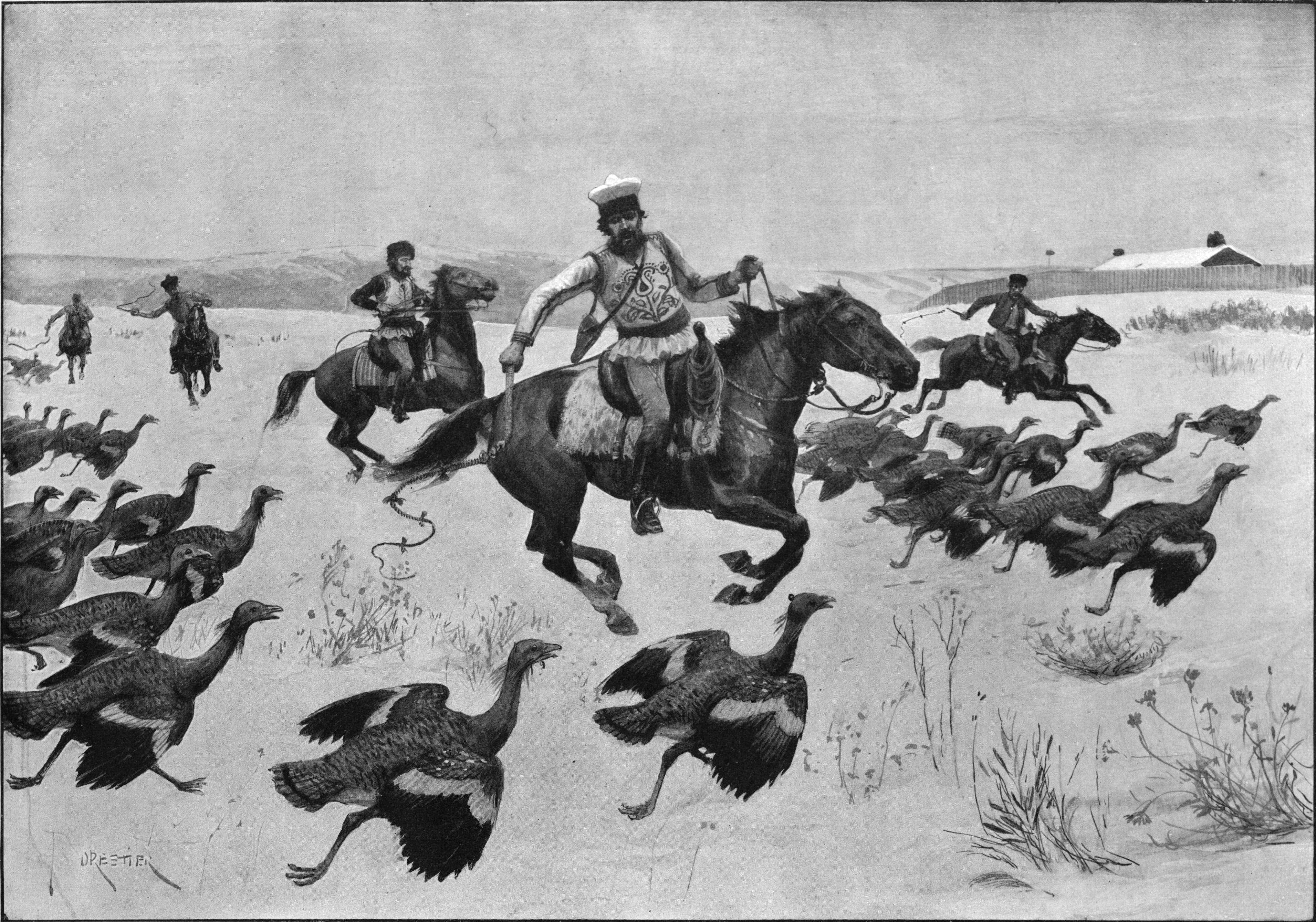 Frozen-winged bustards at the mercy of the Roumanian peasants A sudden frost succeeding rain in Roumania often renders the bustards that abound in the plains peculiarly easy victims to the sportsman. The birds get their wings frozen and in their helplessness are attached by mounted peasantry, who, with shouting and cracking of whips drive them into an enclosure, where they are dispatched